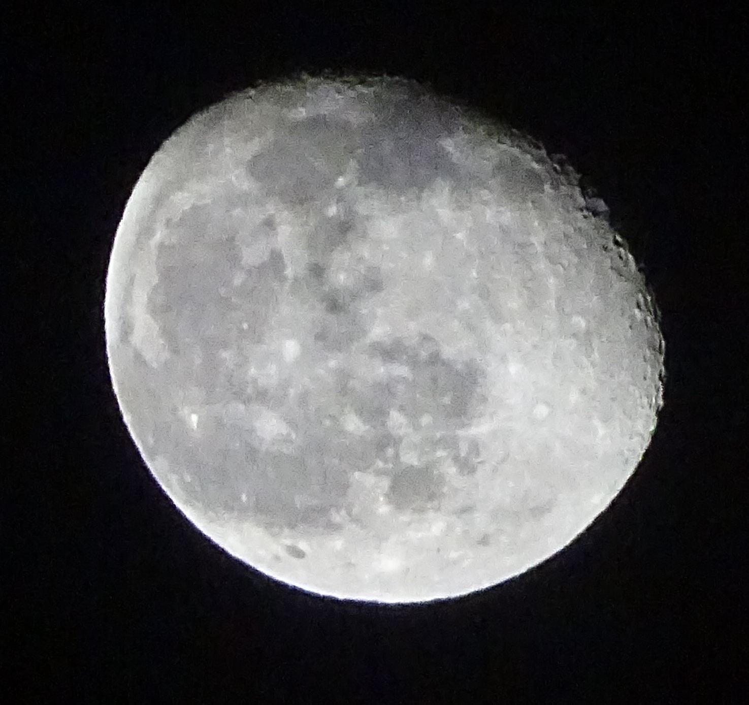 Photo of Chía (the Moon) rising over the Altiplano Cundiboyacense, Bogotá, Colombia